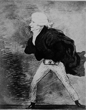 Drawing of James Allan Maconochie, Advocate by Robert Scott Moncrieff